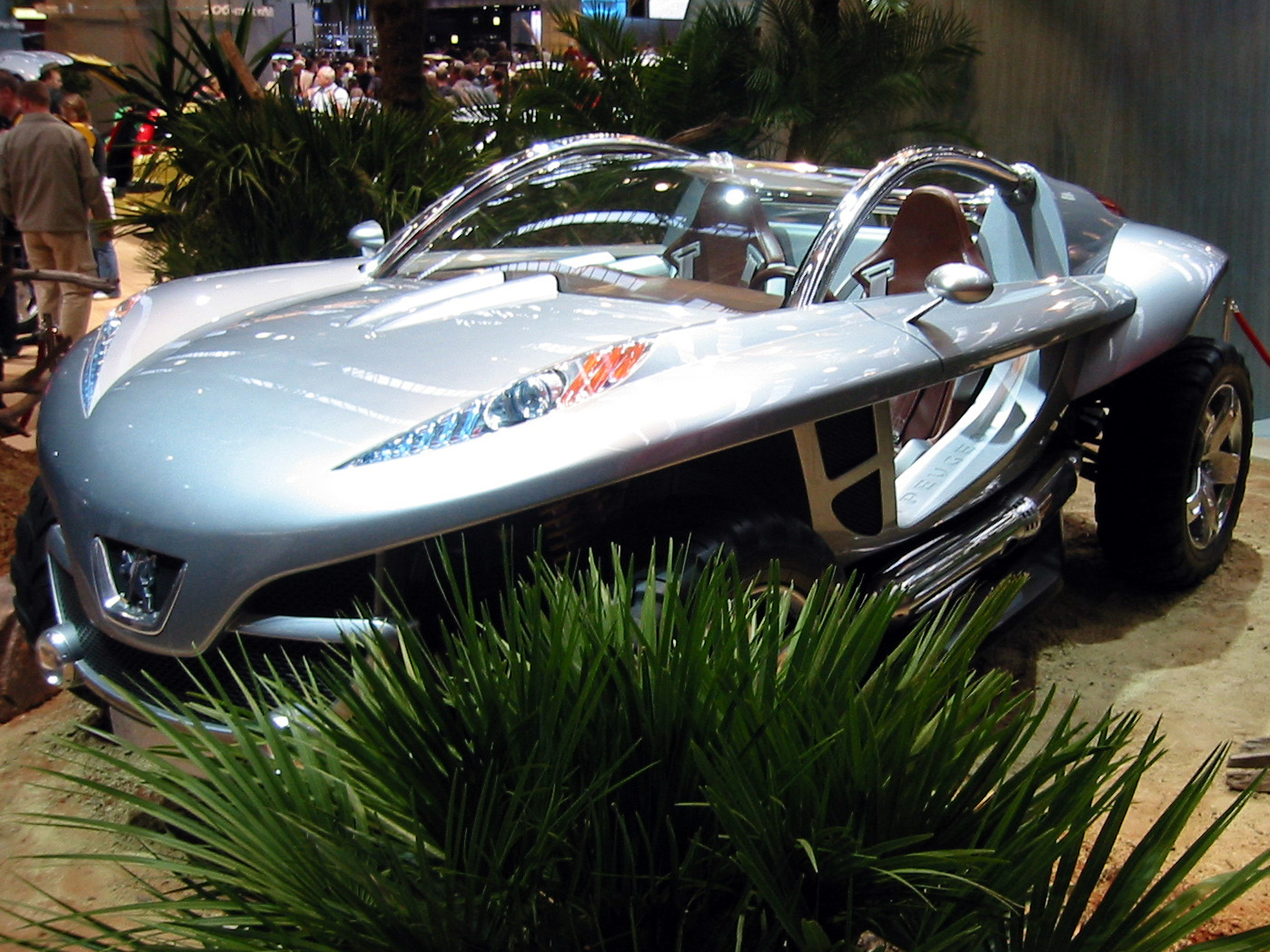 Peugeot Hoggar at the IAA 2003